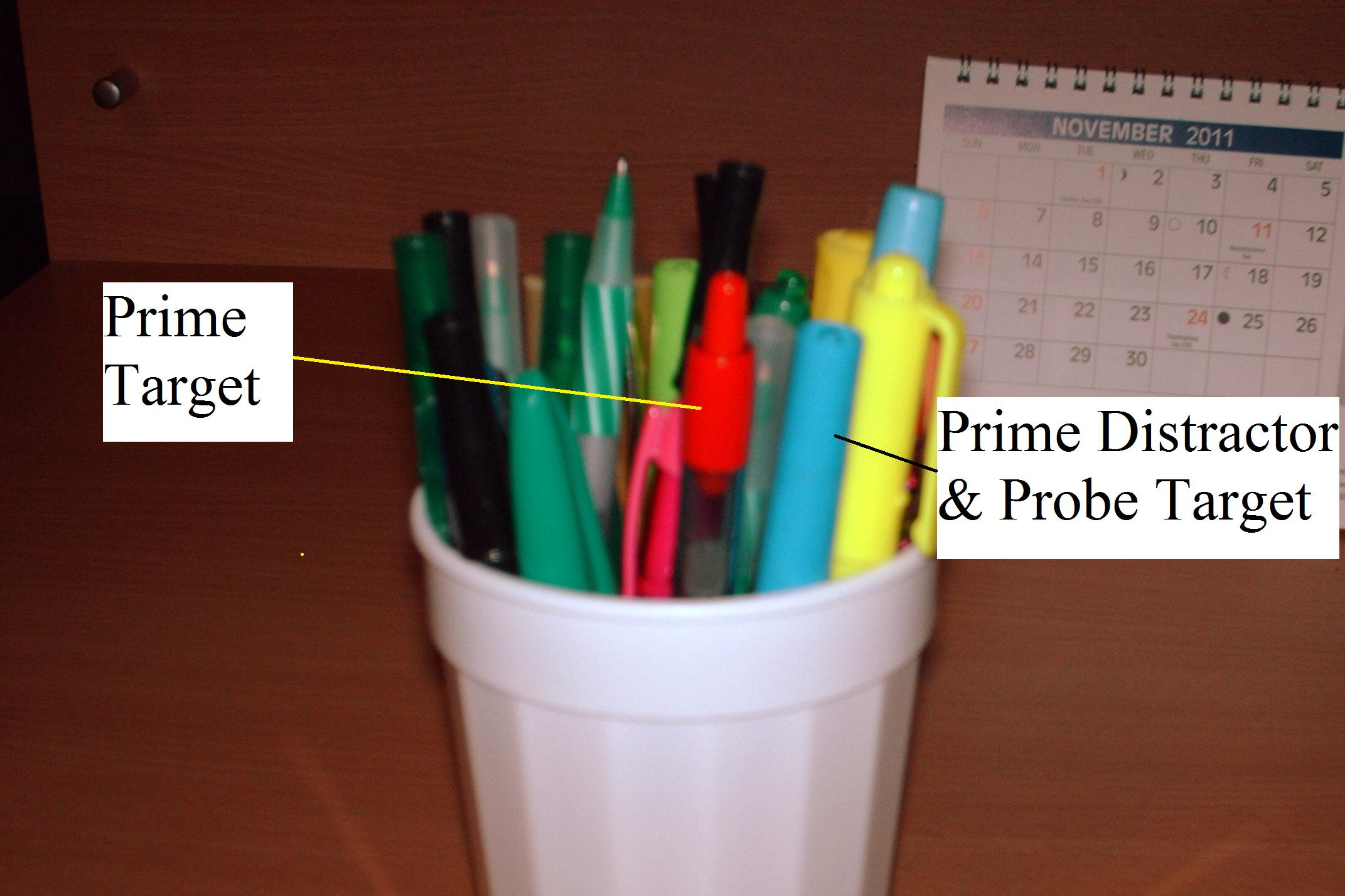 Photograph of pens in a holder